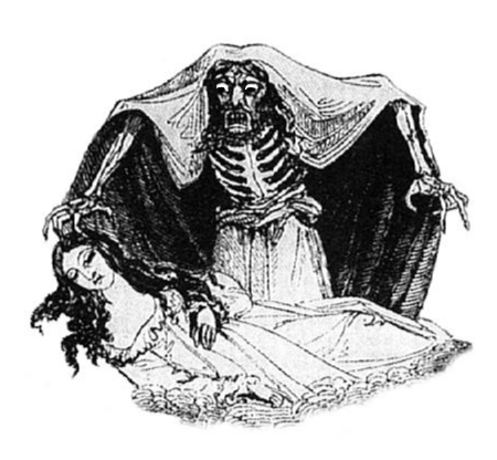 Varney the Vampire.